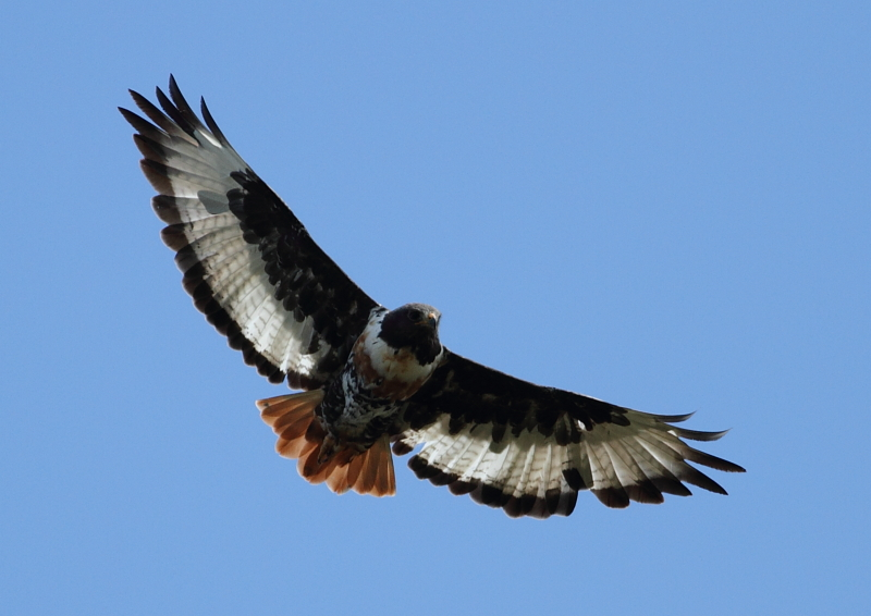 Buteo rufofuscus (Accipitridae) (Jackal Buzzard), Lesotho